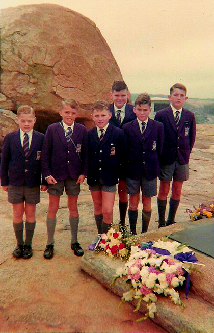 REPS boys at the grave of Cecil John Rhodes wearing full colours.